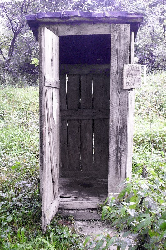 Squat outhouse near student's tourist hut in Ropianka, Beskid Niski, Eastern Europe.